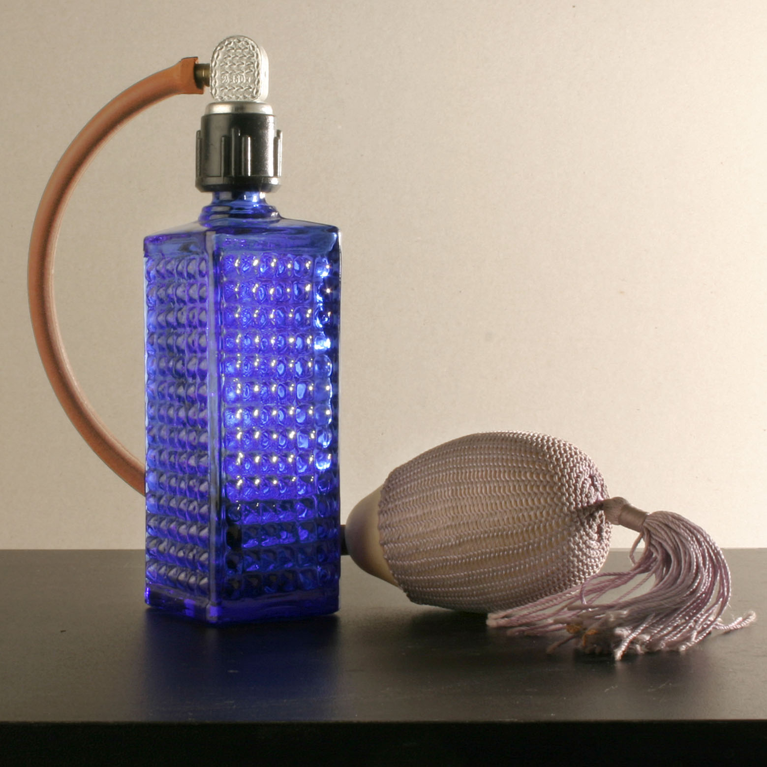 Perfume set from Soviet Union ca 1965, with perfume airbag sprayer.